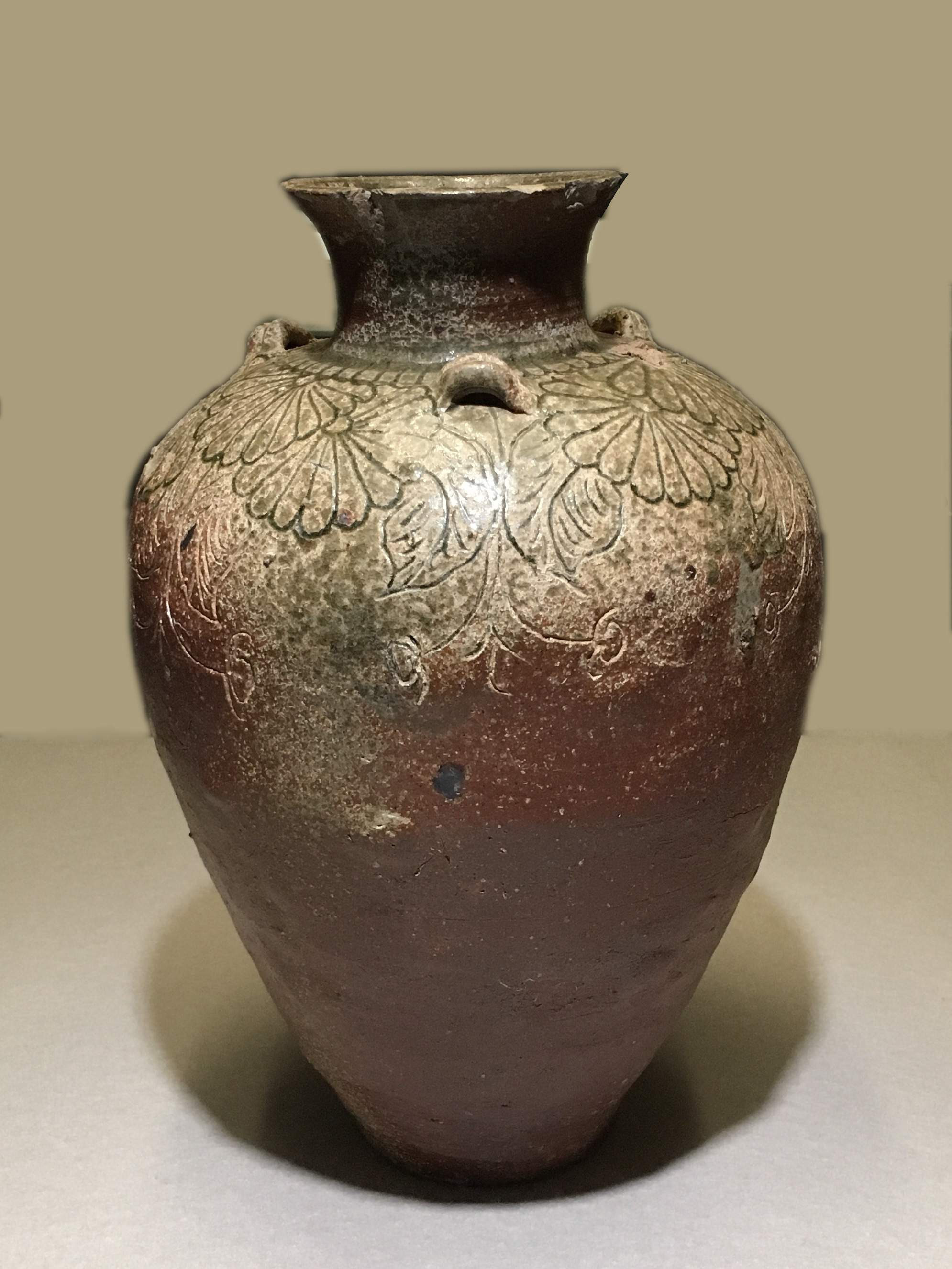 Jar with three lugs, Tamba kilns End of Heian period, 12th century Important Cultural Property